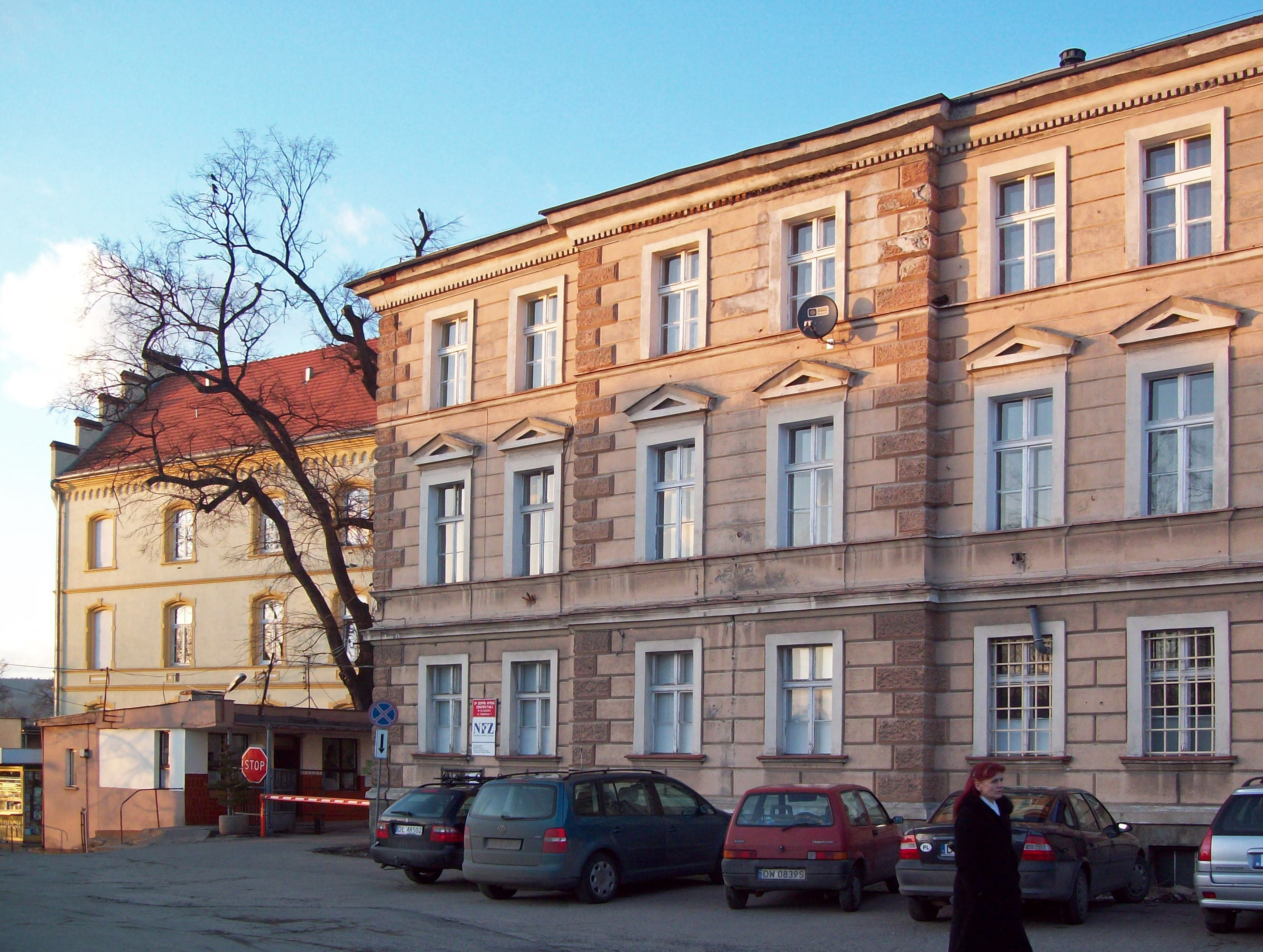 Buildings "A" (left) and "H" (right) seen from the street thrones Szpitalna Street.